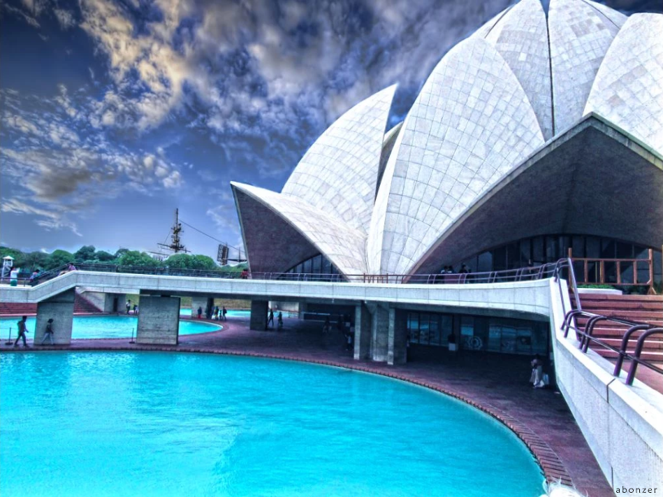 Half View of Lotus Temple. One of the nine ponds surrounding the Lotus Temple